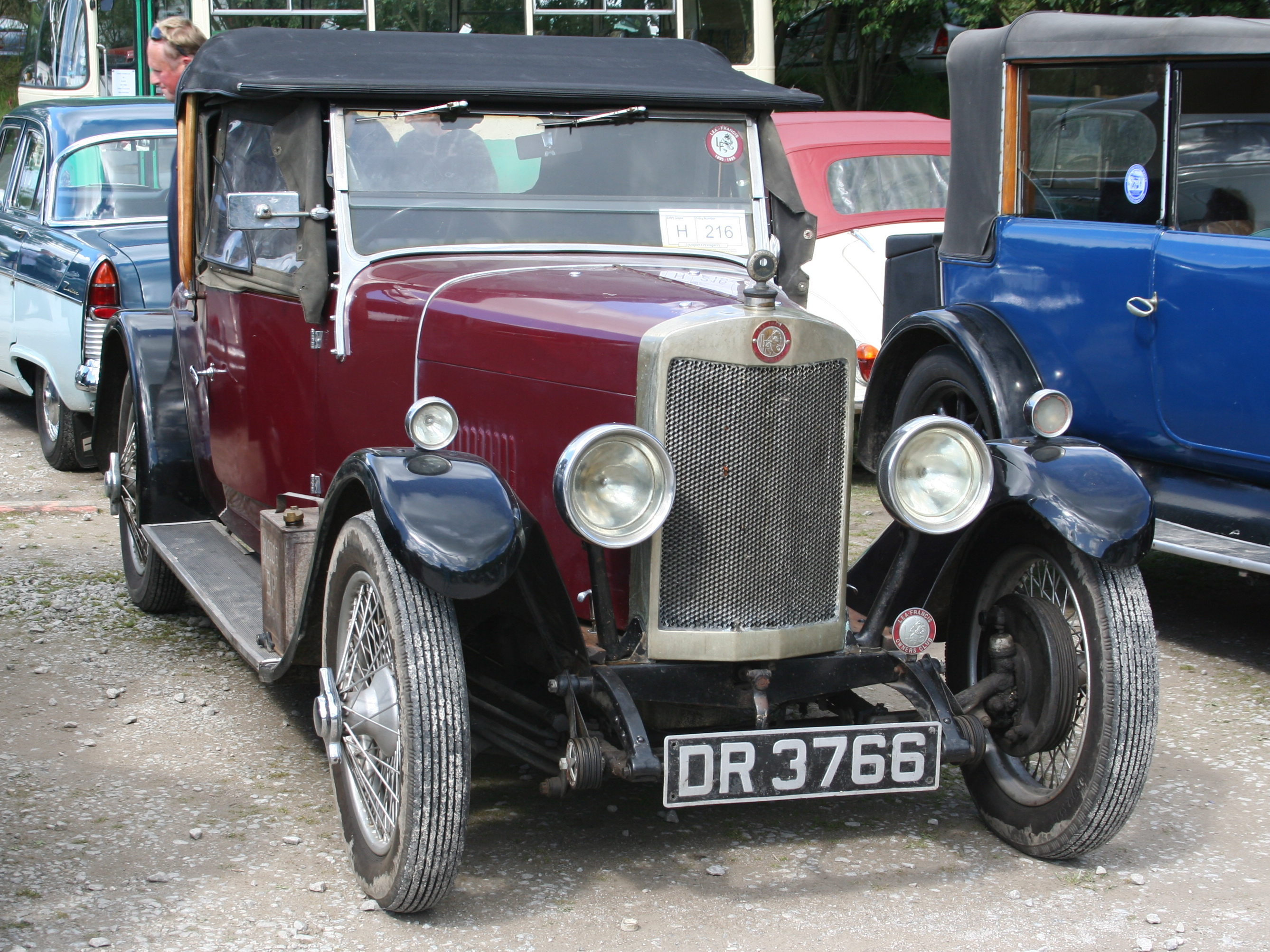 Lea-Francis, manufactured 1928, 1497 cc